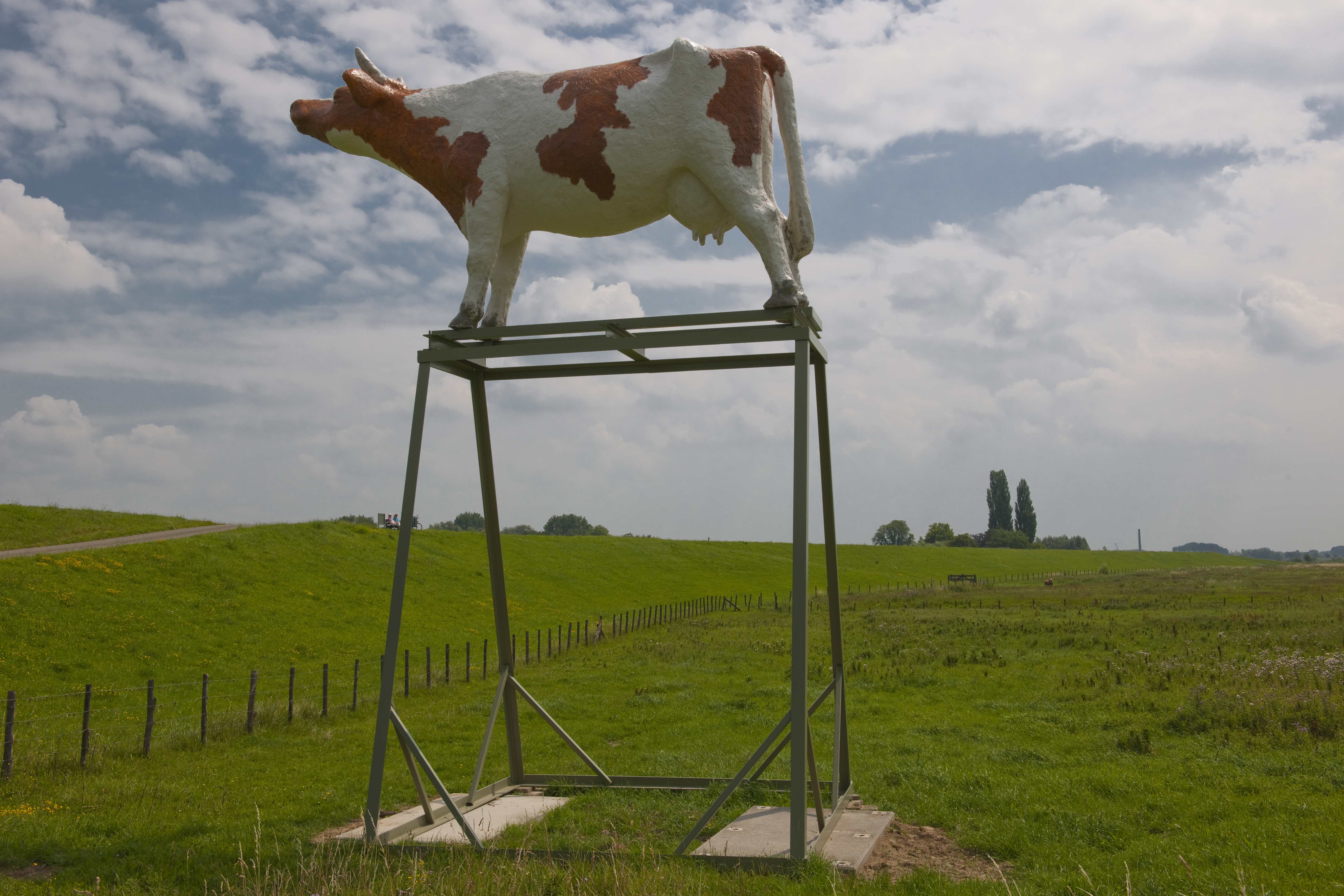 Monumental cow of acrylate in the area of the river the Waal